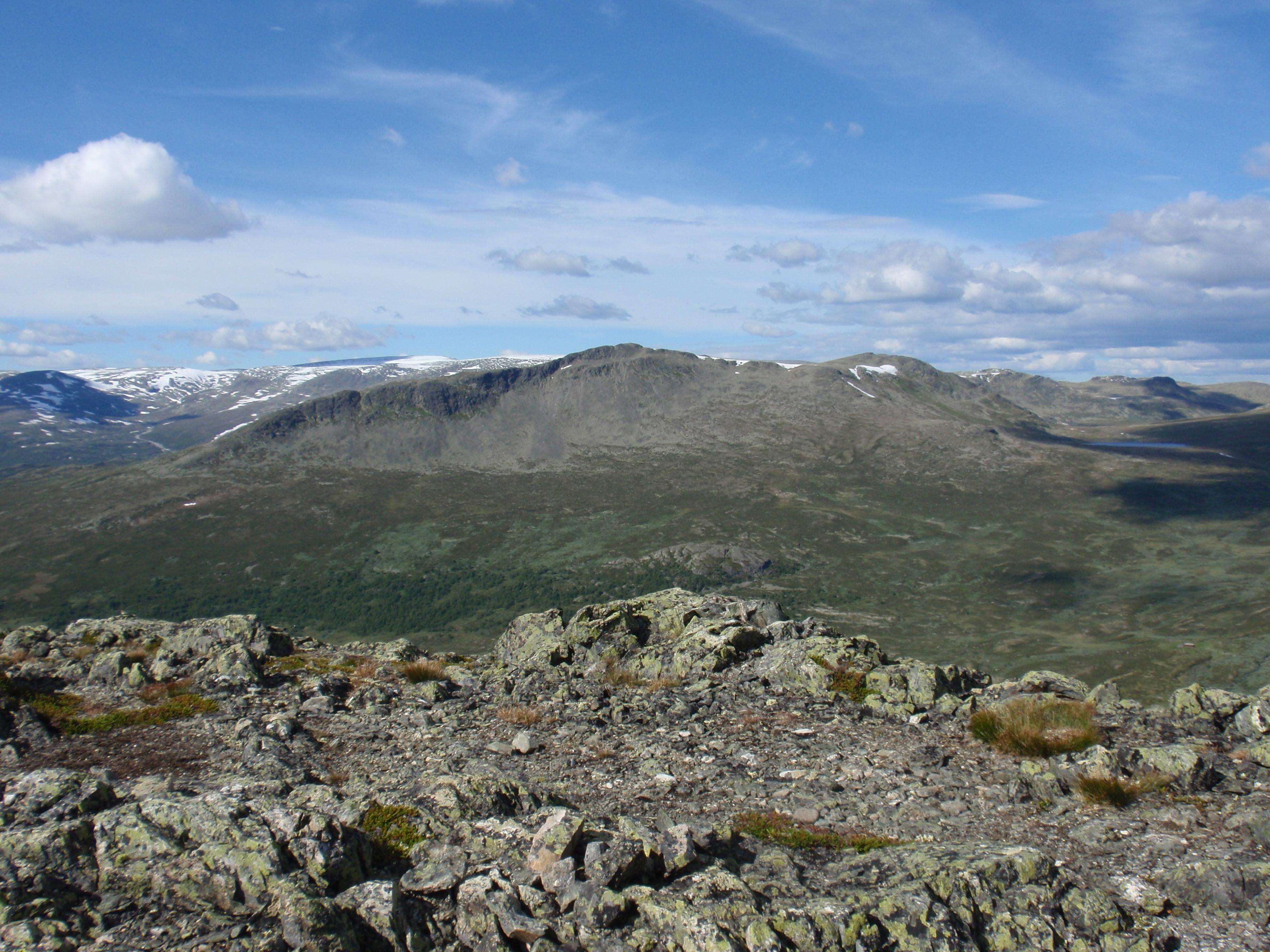 Mount Harahorn seen from the top of mount Kvitingatn in the summer.